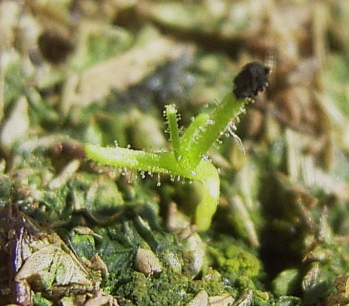 Byblis lamellata seedling Author: Denis Barthel